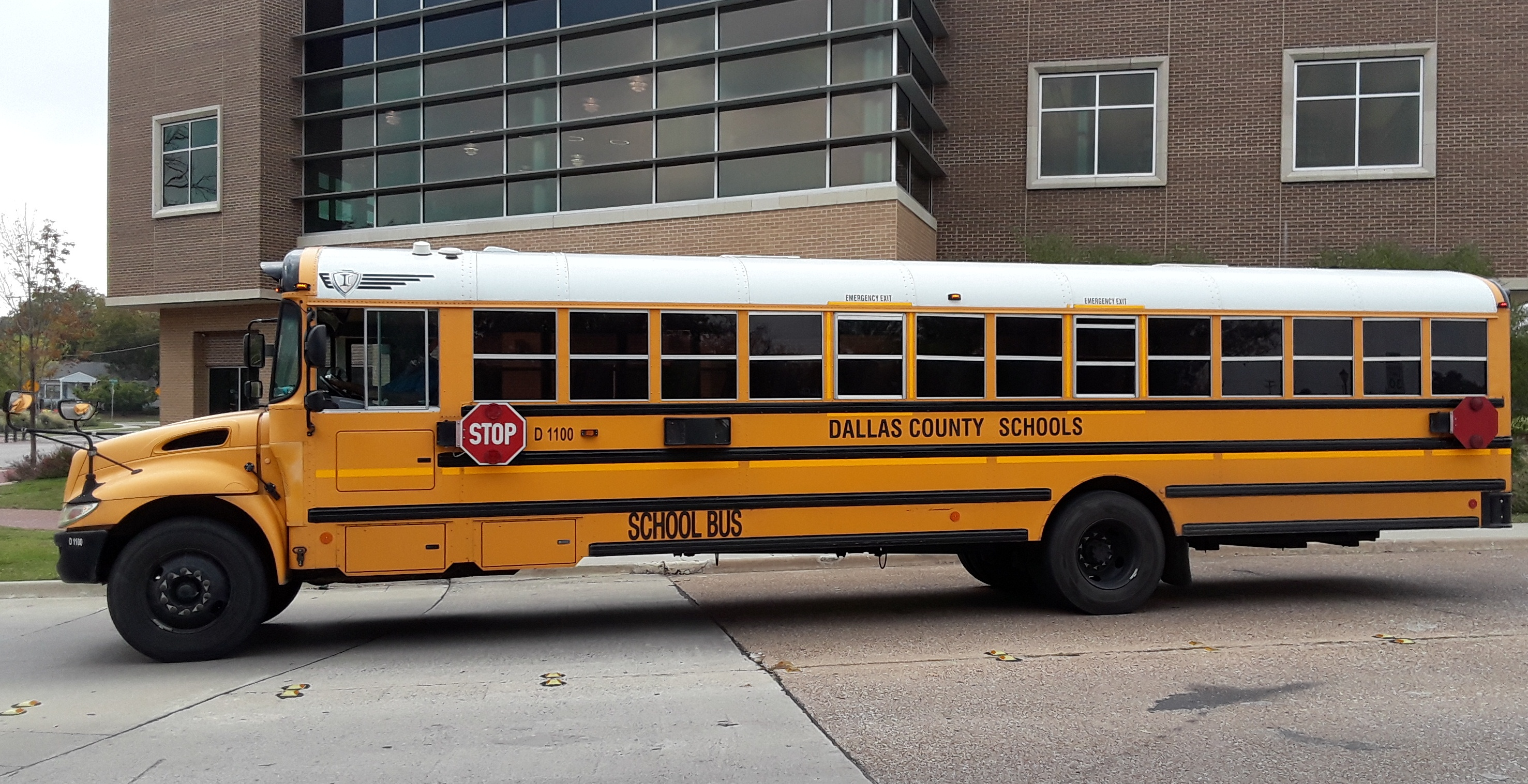 A school bus previously operated by Dallas County Schools prior to dissolution.